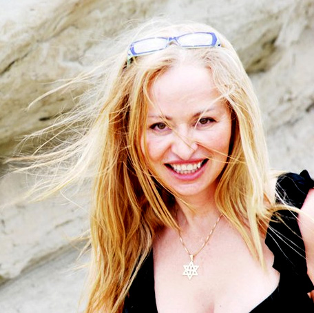 Dr Brigitte Boisselier, French chemist and Raëlian.